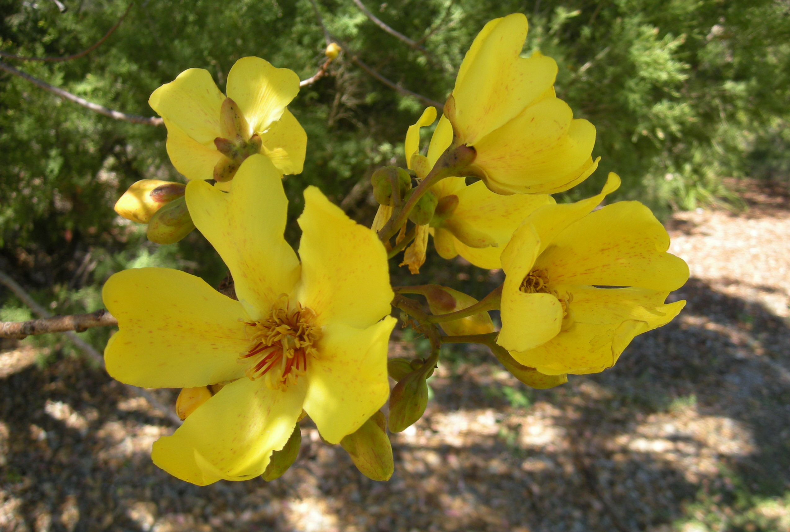 Cochlospermum fraseri flowers